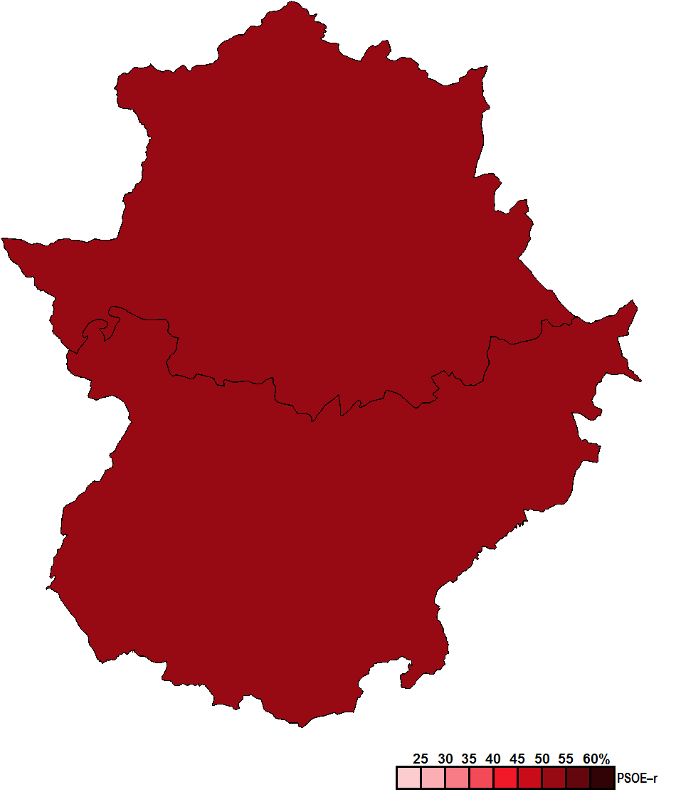 Provincial results for the 2007 Extremaduran regional election.